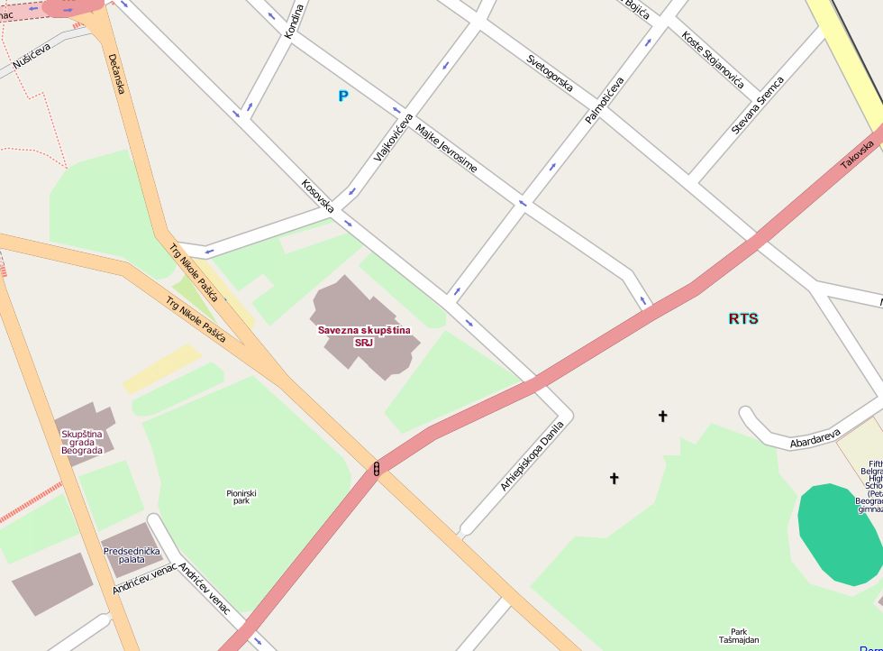 Map of protests of 5 October 2000, in Belgrade, FR Yugoslavia. Savezna skupština SRJ - Federal Assembly of FRY RTS - Radio Television of Serbia P - Local police station, raided during the protests Skupština grada Beograda - Belgrade City Hall